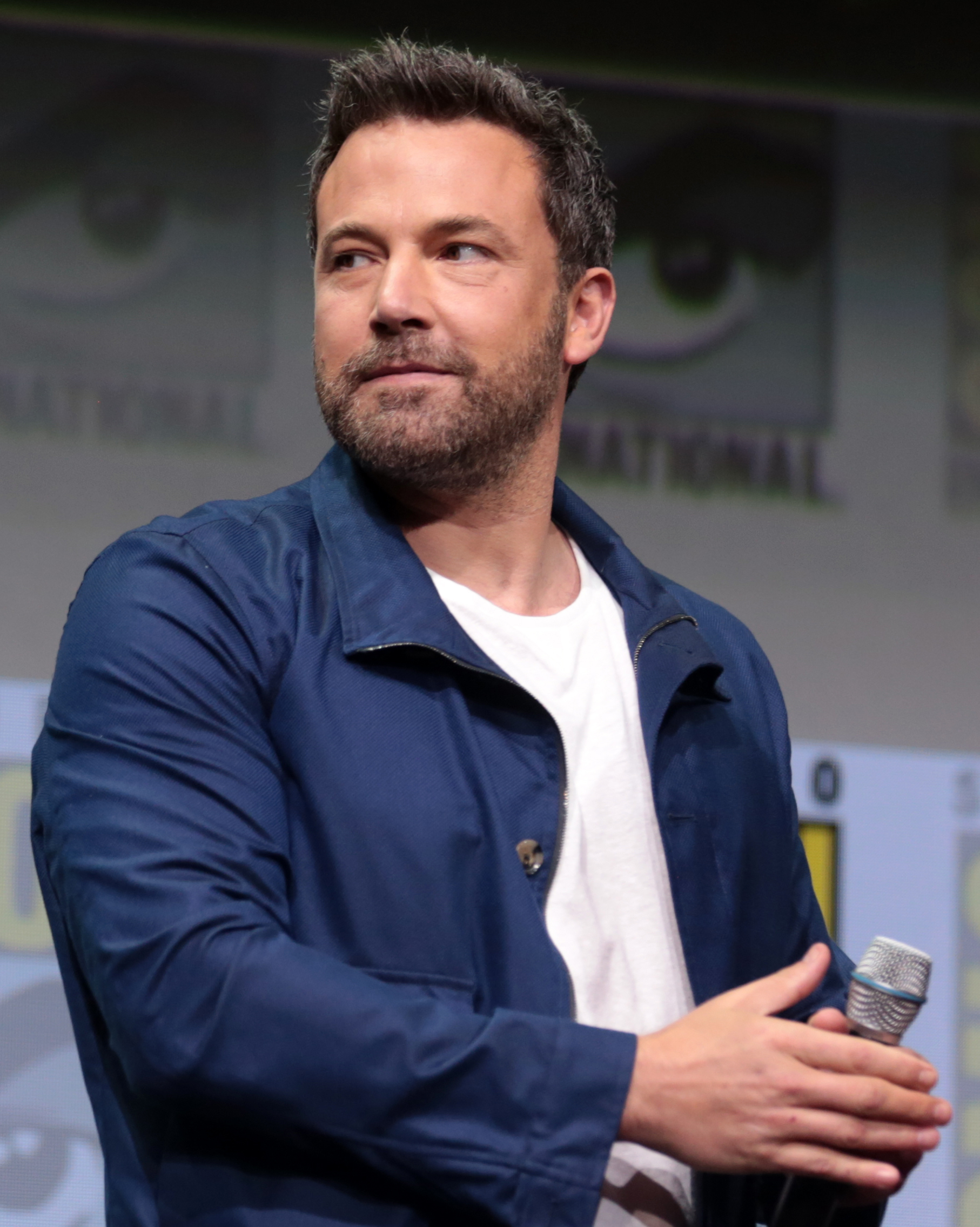 Ben Affleck and Ezra Miller speaking at the 2017 San Diego Comic Con International, for "Justice League", at the San Diego Convention Center in San Diego, California.